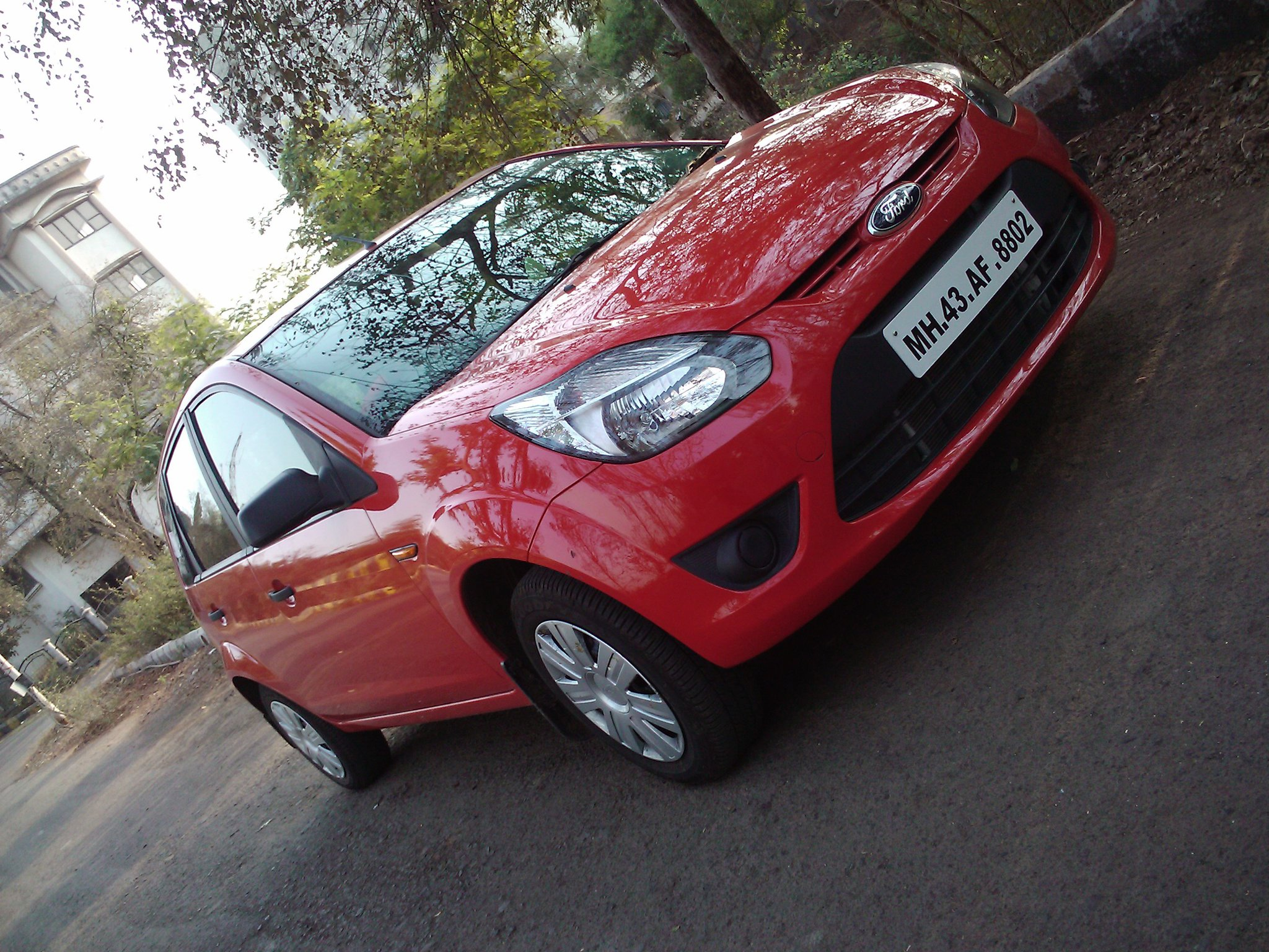 ford figo